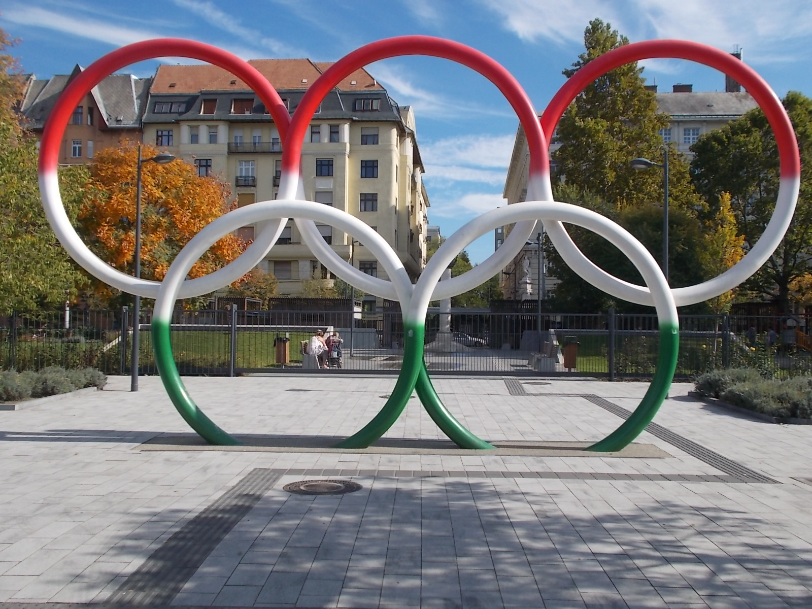 Symbol by Gábor Mihály (2014 Modern steel art, illuminated, partly 'digged' into the pavement) - Olimpia Park, Lipótváros neighbourhood, District V, Budapest.